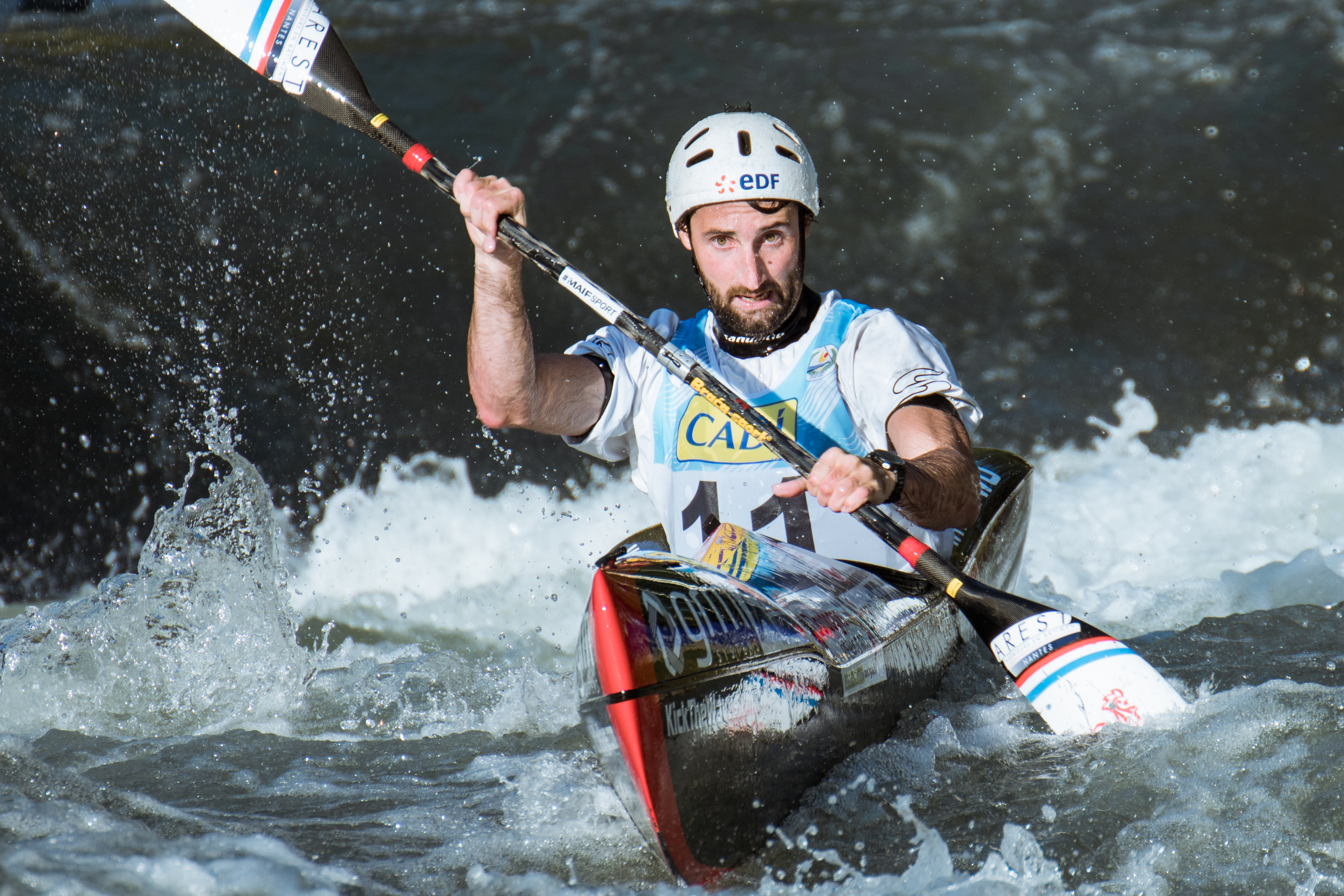 Félix Bouvet during the 2019 Canoe Wildwater World Championships in La Seu d'Urgell, Spain.